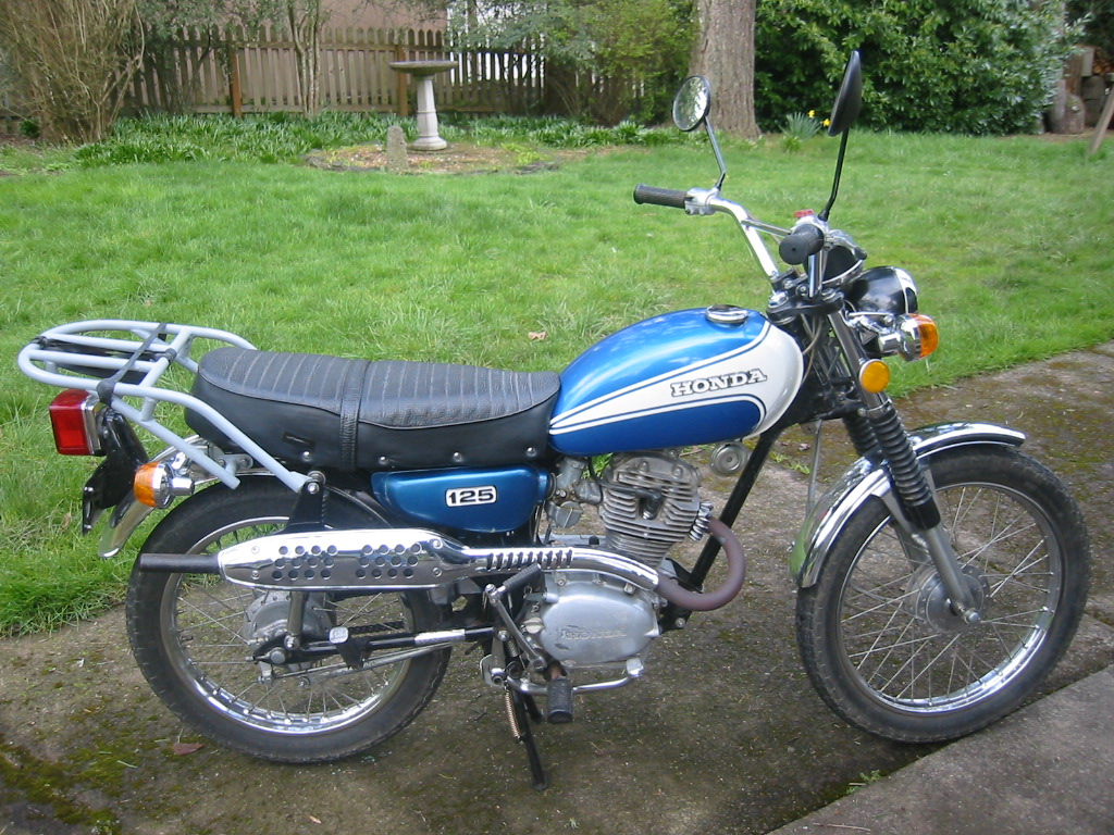 Photo of 1973 Honda Motorcycle Model CL-125S, Color Blue